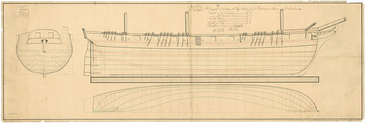 TAY 1813 lines